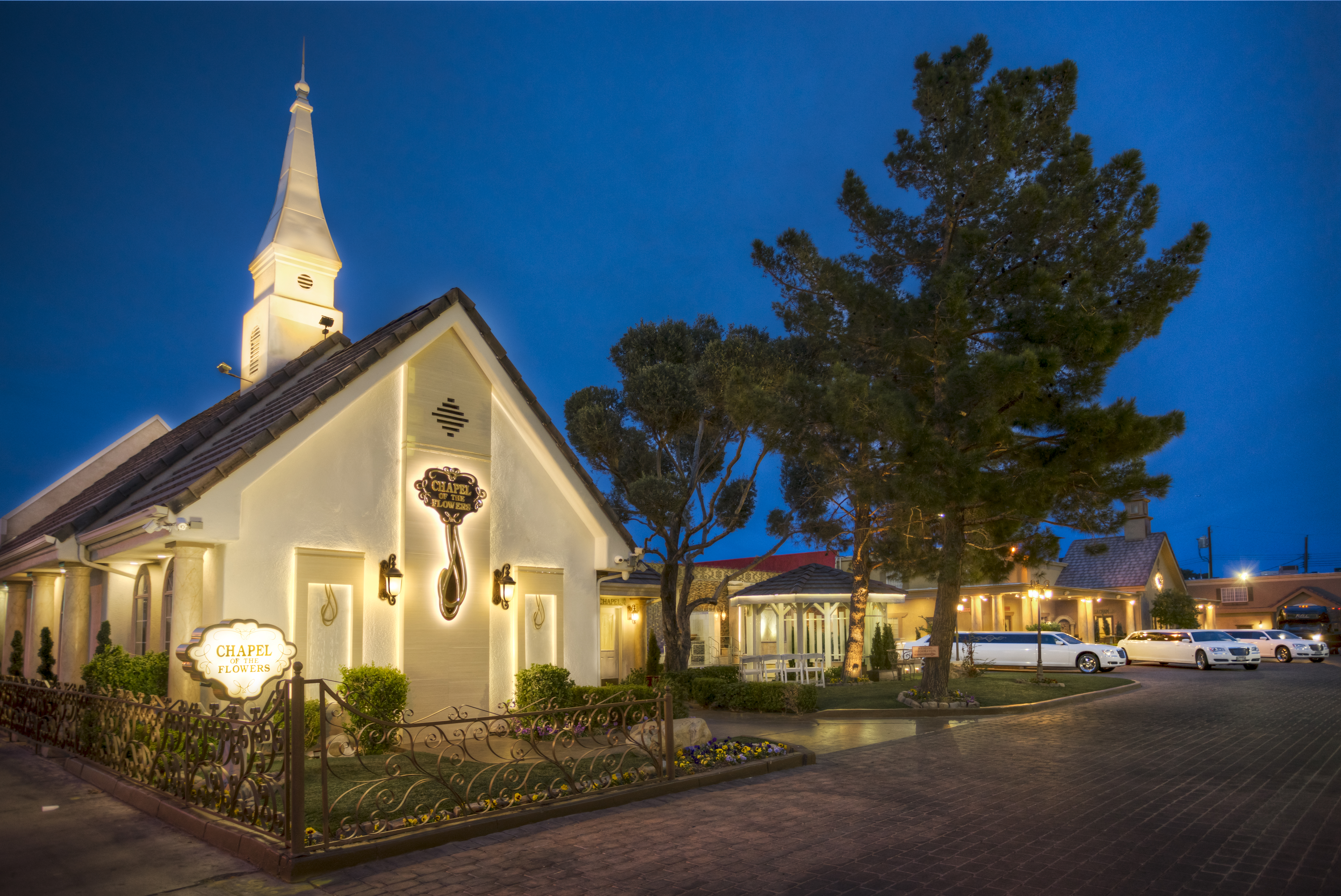 Photo of Chapel of the Flowers from the street.